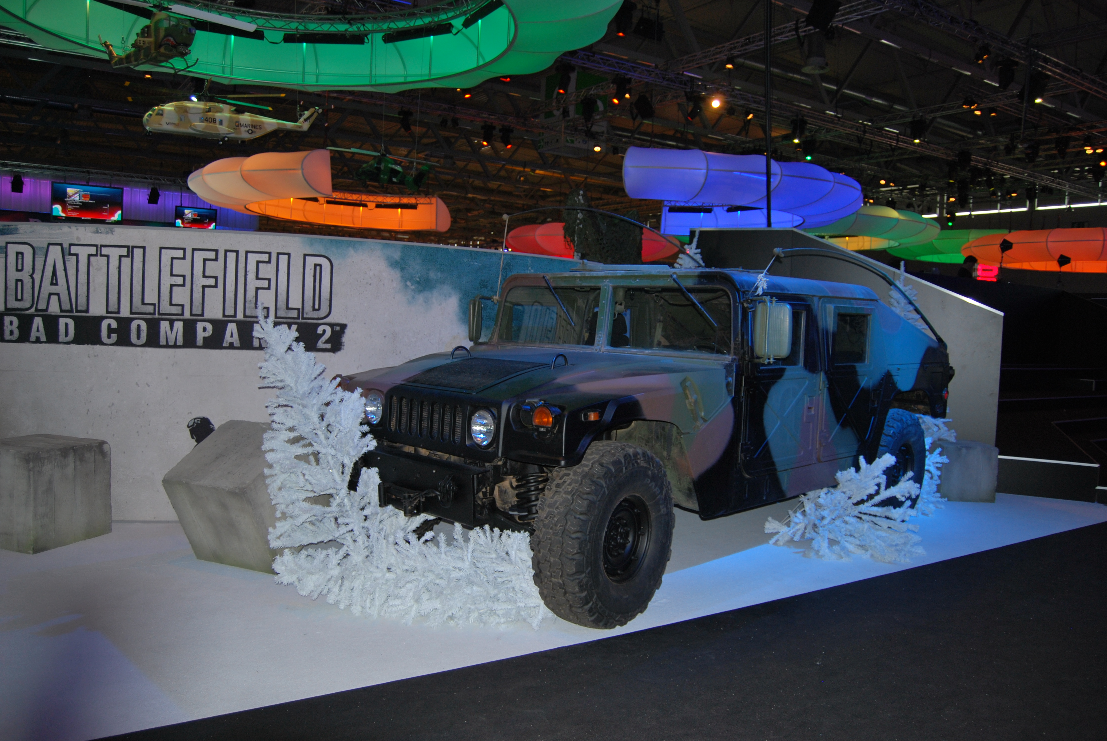 Battlefield - Bad Company 2 - Dice (EA)